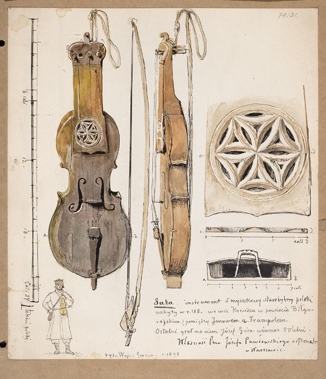 Aquarel of Polish suka instrument